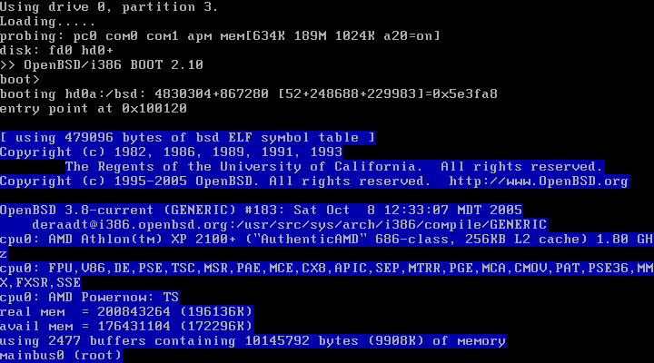 OpenBSD 3.8 booting.